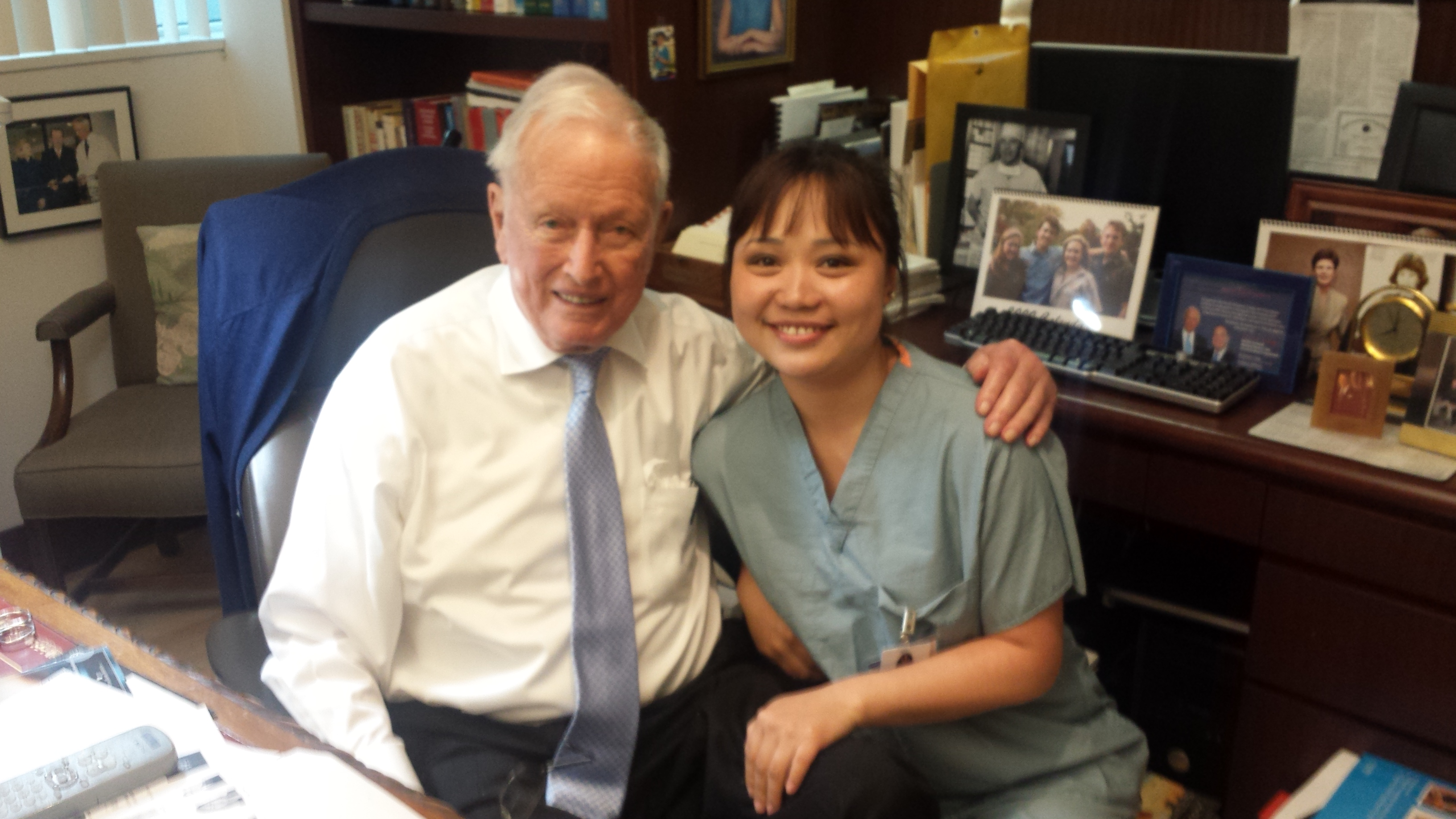 with an interning medical student